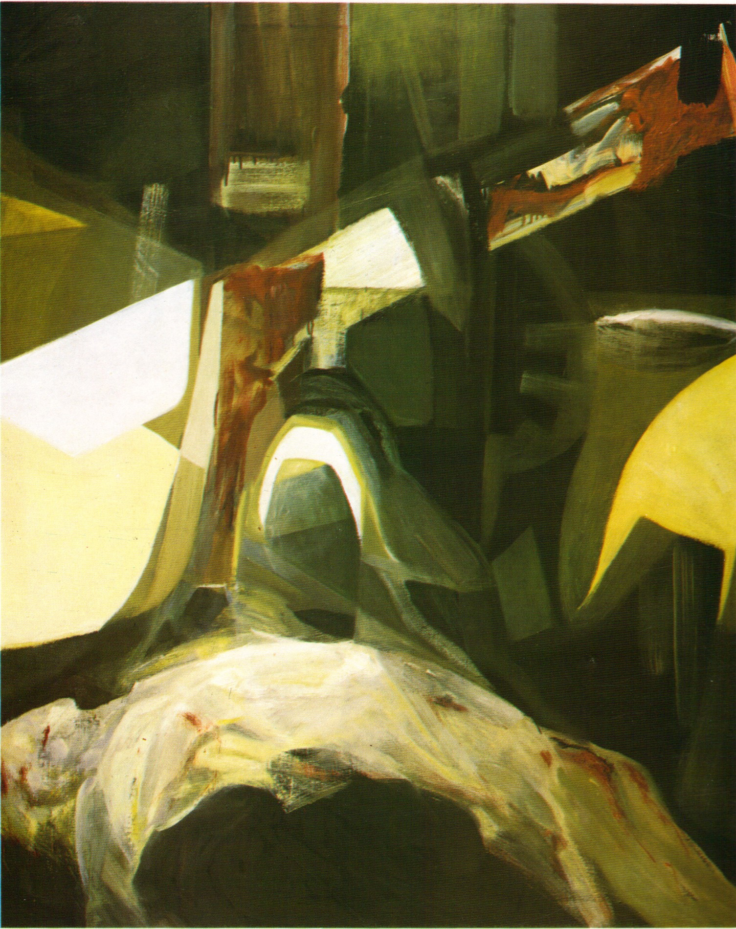 Fine art.